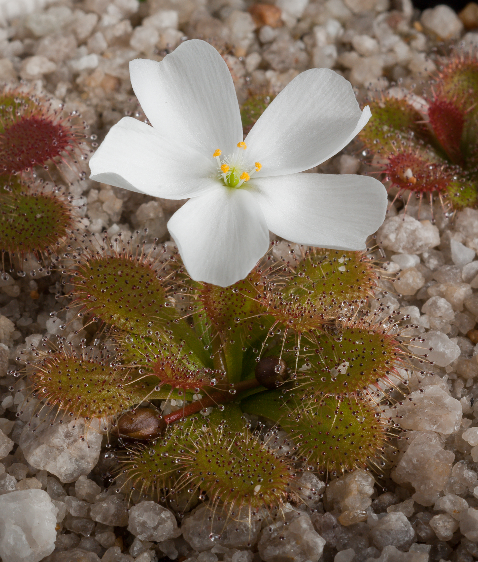 Drosera aberrans, typical form from Victoria, Australia. In cultivation.